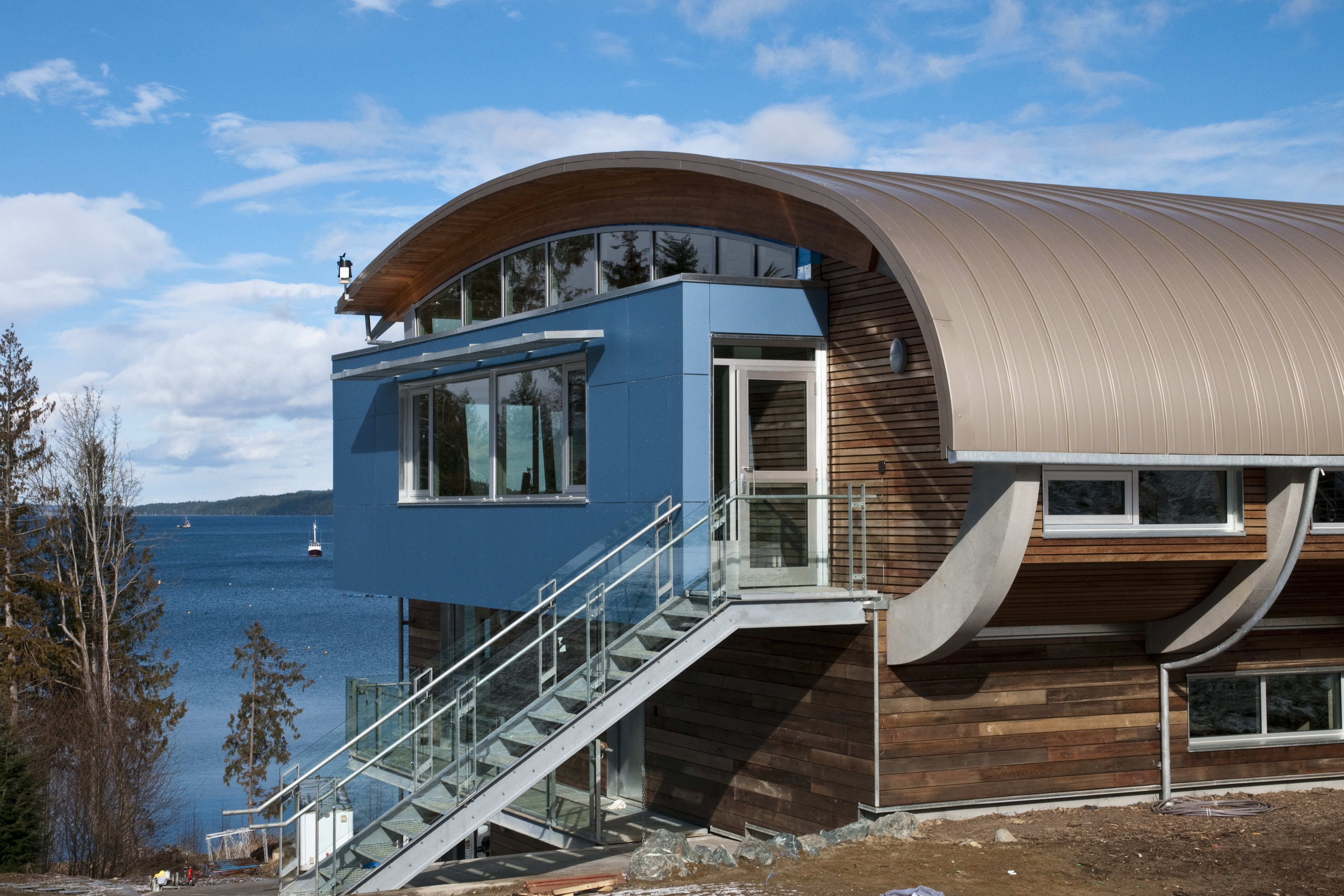 Deep Bay Marine Field Station from south-west with Baynes Sound in background